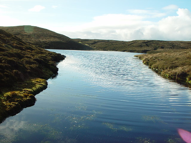 Little Water, Whalsay, Shetland. Looking west across Little Water, Whalsay